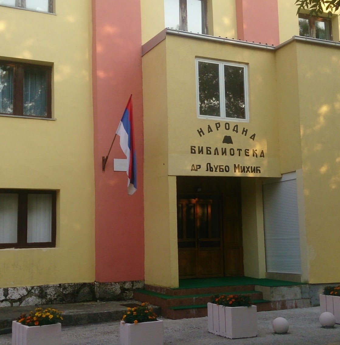 ЉУБИЊЕ